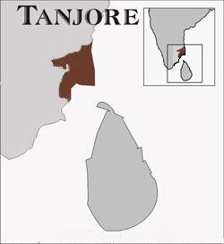 A map of the Thanjavur Maratha Kingdom at the time of its annexation by the British in 1798